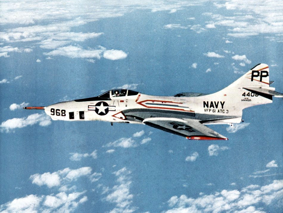 A U.S. Navy Grumman F9F-8P Cougar (BuNo 144408) of Photographic Reconnaissance Squadron 61 (VFP-61) Det.J "Eyes of the Fleet" in flight. VFP-61 Det.J was assigned to Air Task Group 3 (ATG-3) aboard the aircraft carrier USS Kearsarge (CVA-33) for a deployment to the Western Pacific from 9 August 1957 to 2 April 1958.